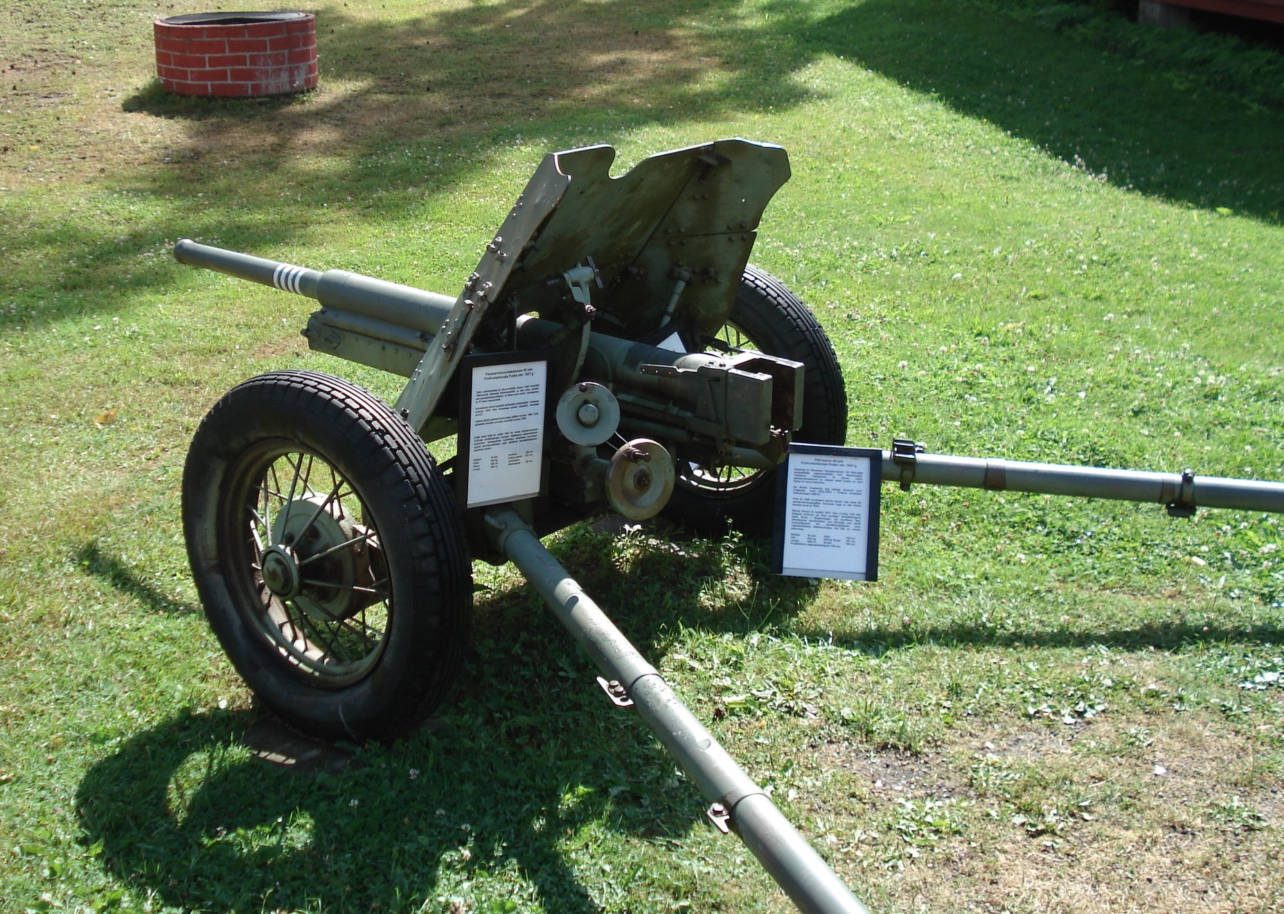 Soviet 45 mm anti-tank gun M1937, displayed in Finnish Tank Museum (Panssarimuseo) in Parola. Photo taken on July 14, 2006.